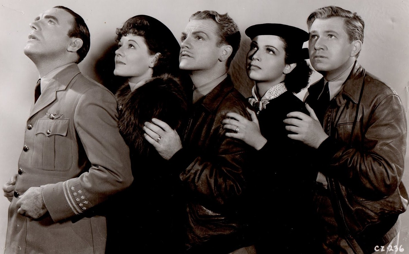 Left to right: Pat O'Brien, Martha Tibbetts, James Cagney, June Travis, and Stuart Erwin in Ceiling Zero - publicity still (cropped : see source)